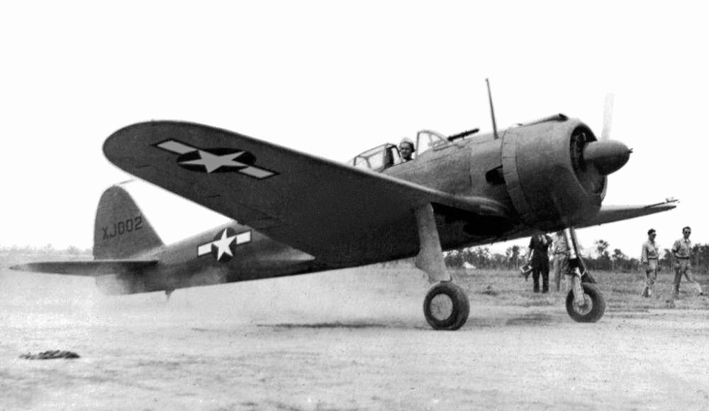 A Japanese Nakajima Ki-43-IB Hayabusa taking off at Brisbane, Queensland (Australia) in 1943. After its capture it was rebuilt by the Technical Air Intelligence Unit (TAIU) in Hangar 7 at Eagle Farm, Brisbane. It was painted with Japanese markings for recognition photos but flown with US markings. It carries the Australian tail numer "XJ002".